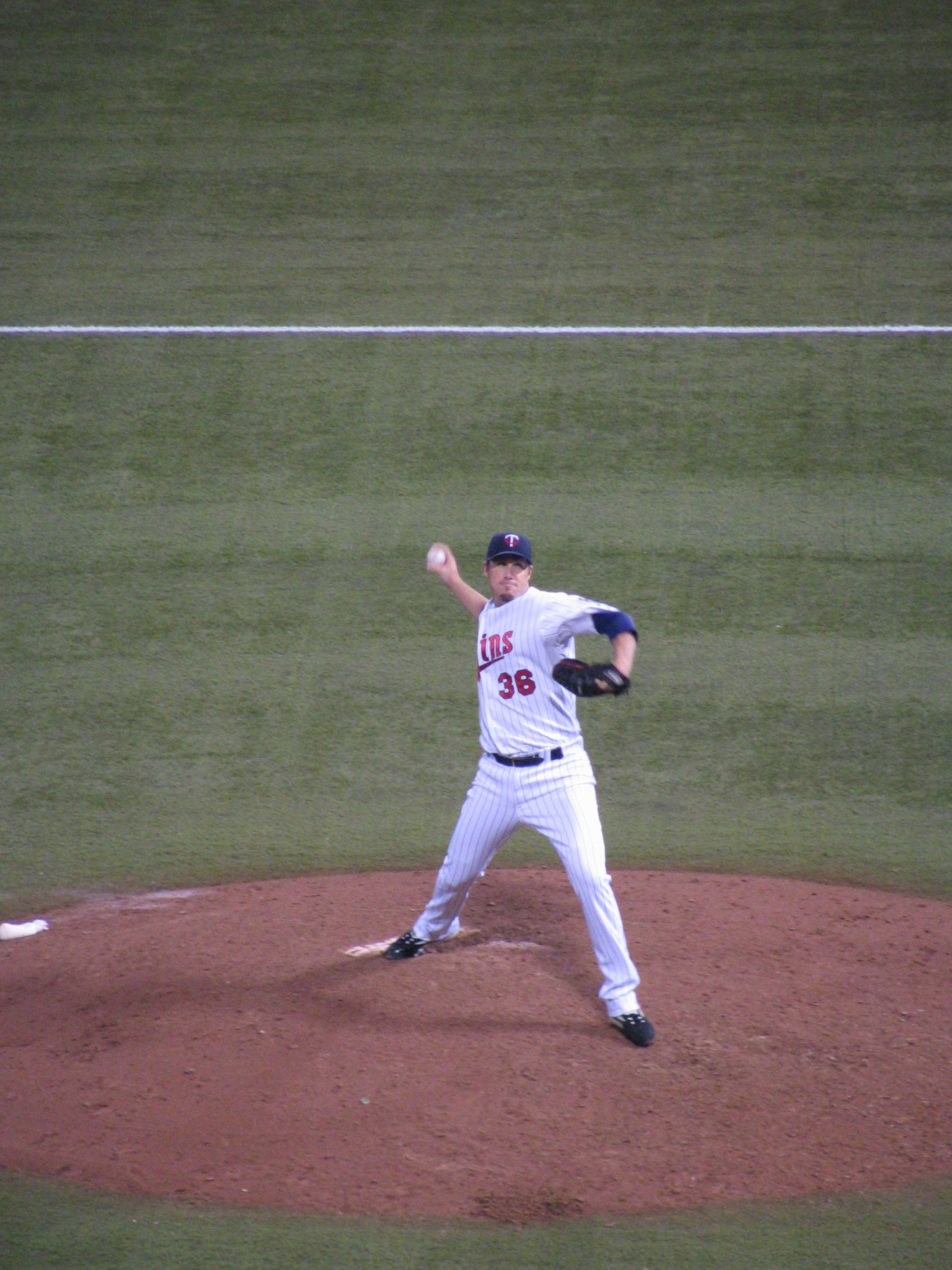 Twins closer Joe Nathan